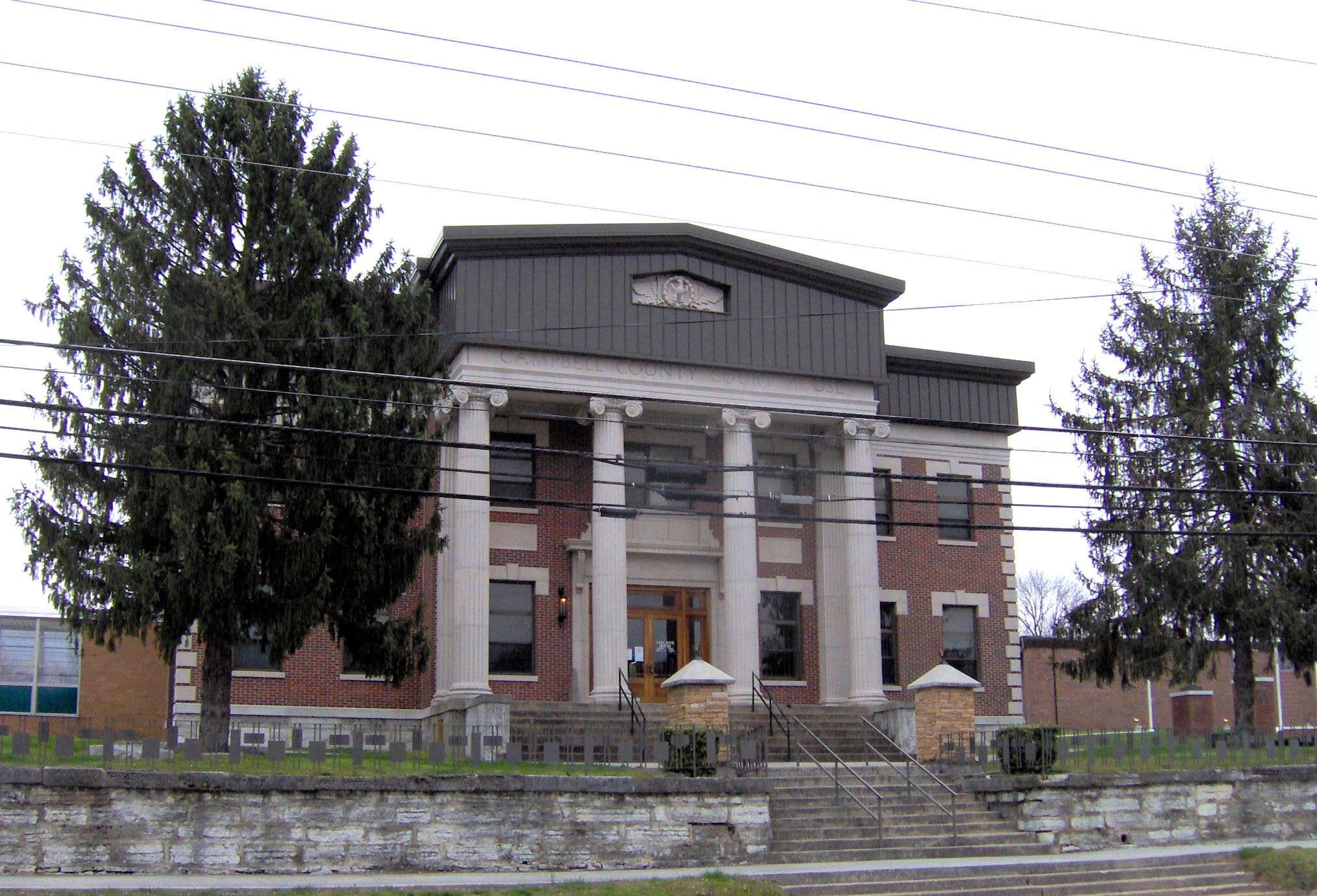 The Campbell County Courthouse in Jacksboro, Tennessee, in the southeastern United States. This courthouse was built in 1926.